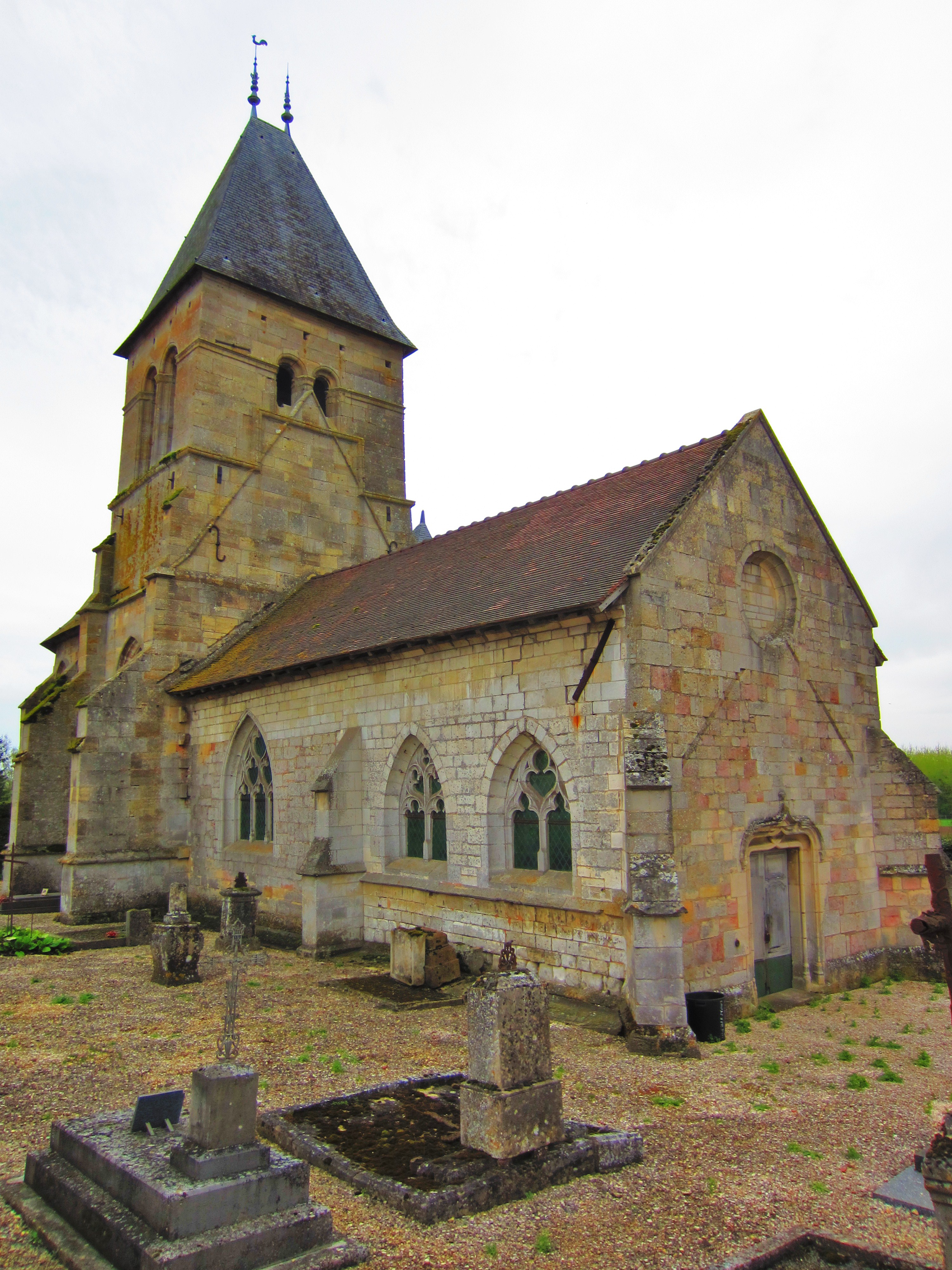 Faremont Thieblemont church